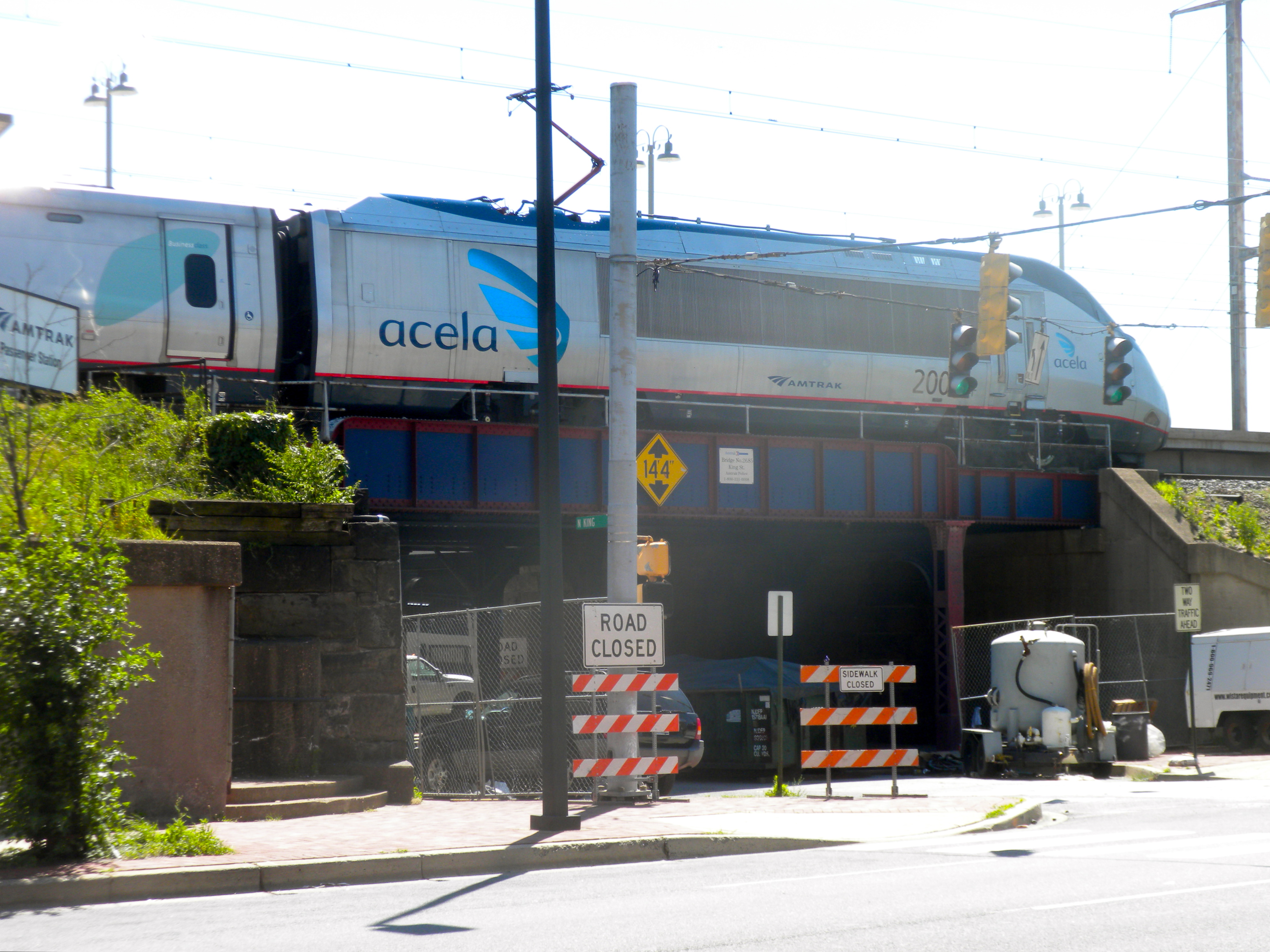 The viaduct for Amtrak in Wilmington, Delaware. This is on King Street right by the station, but the viaduct goes around much of the town. The Acela has just pulled in and the loading platforms are just north (to the left) and the station is a bit further north. The viaduct is on the NRHP.